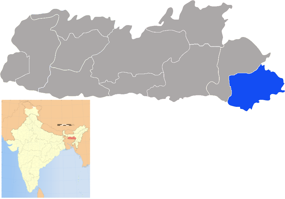 Locator map of West Jaintia district of the Indian state of Meghalaya.